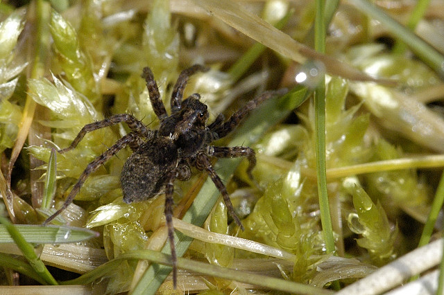 Pardosa sphagnicola from Commanster, Belgian High Ardennes .